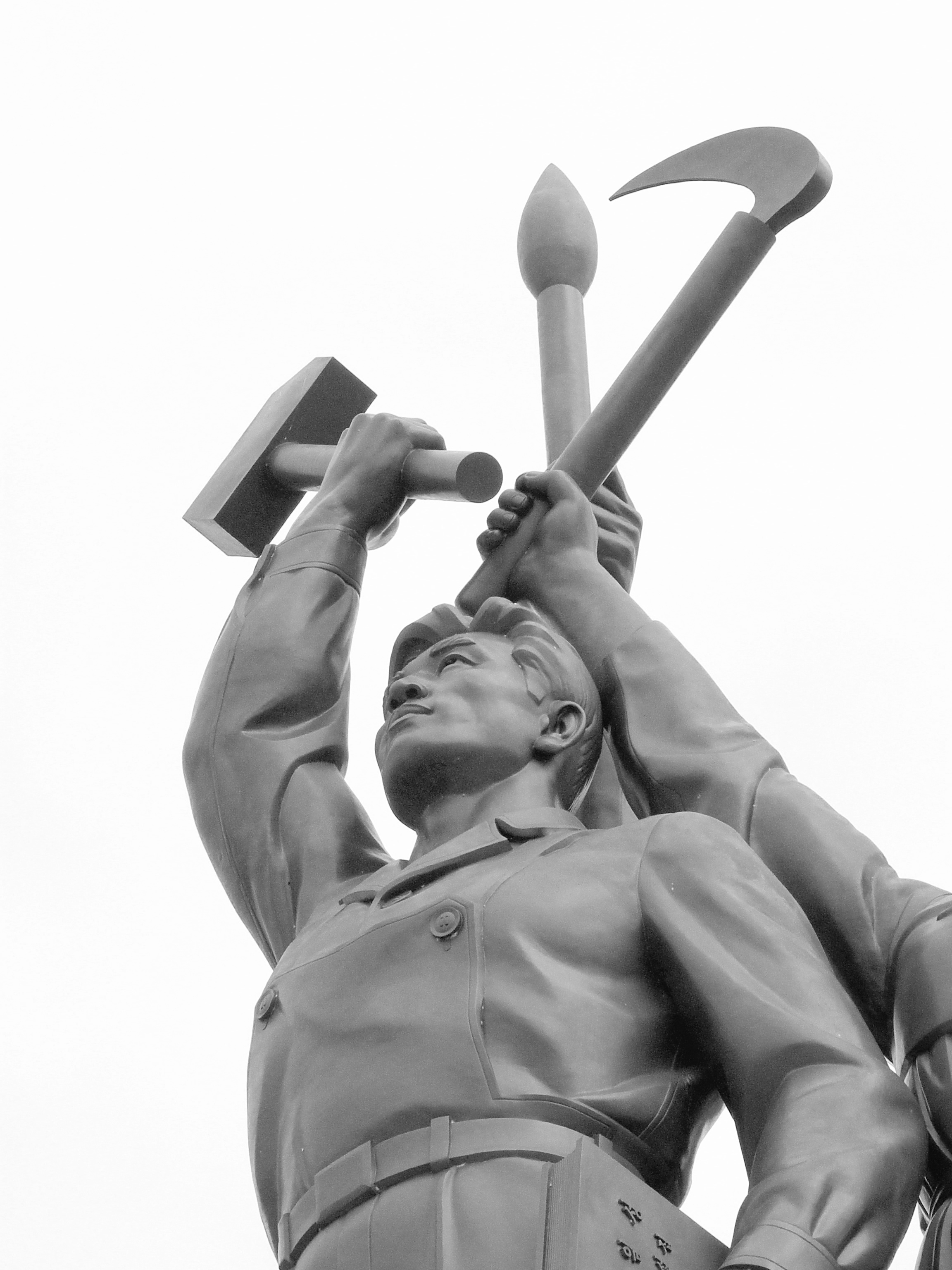 The Tower of Juche Idea was completed in 1982 to commemorate Kim Il Sung's 70th birthday. The Juche Idea, the official state ideology, developed by the man himself, is a blend of Marxism-Leninism and Autarky. In front of the tower stands a statue of the idealized worker, farmer and intellectual, holding up the hammer, sickle and brush respectively.